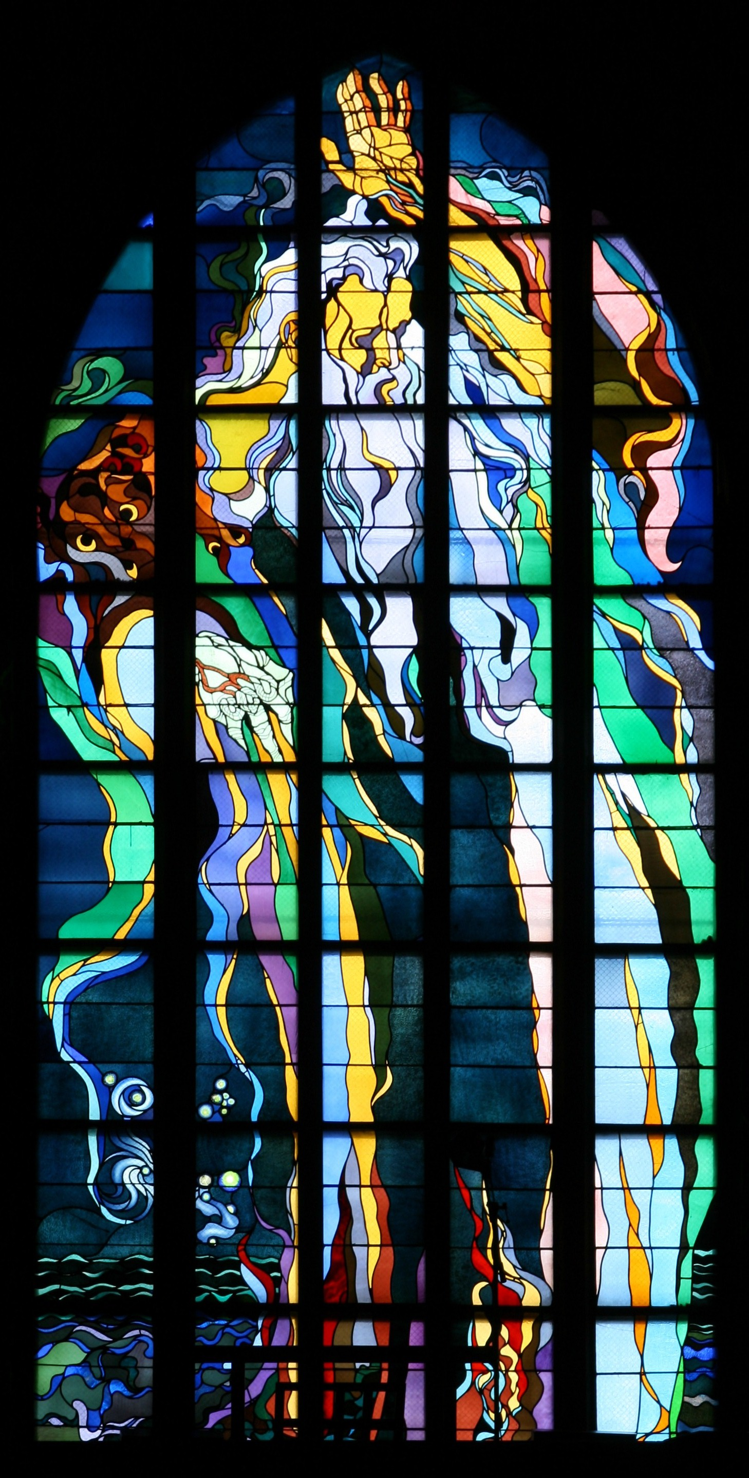 "God the Father - Arise". Stained glass window made by Stanisław Wyspiański (1869–1907) in church of St. Francis in Kraków (Poland).